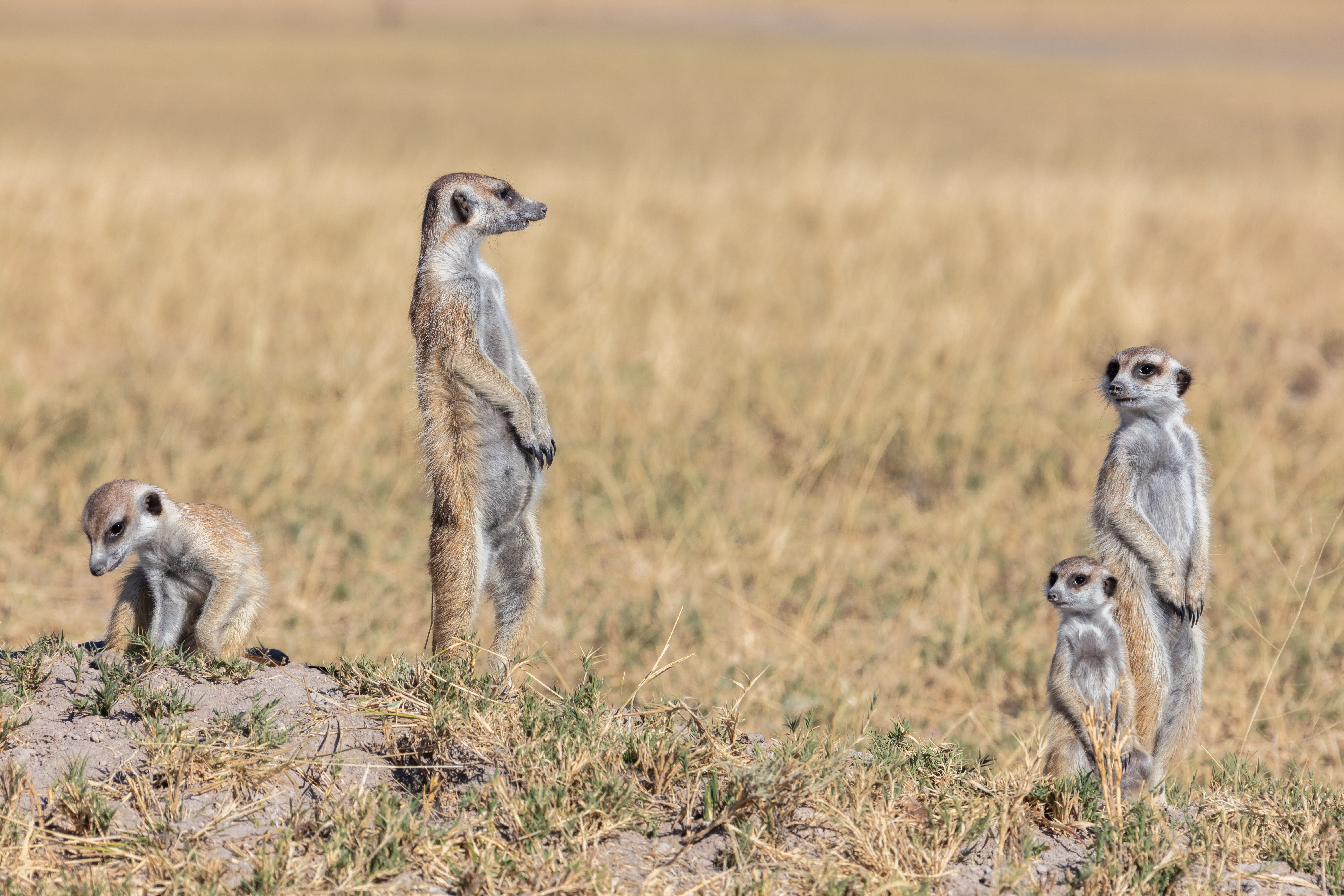 Meerkats (Suricata suricatta), Makgadikgadi Pans National Park, Botswana